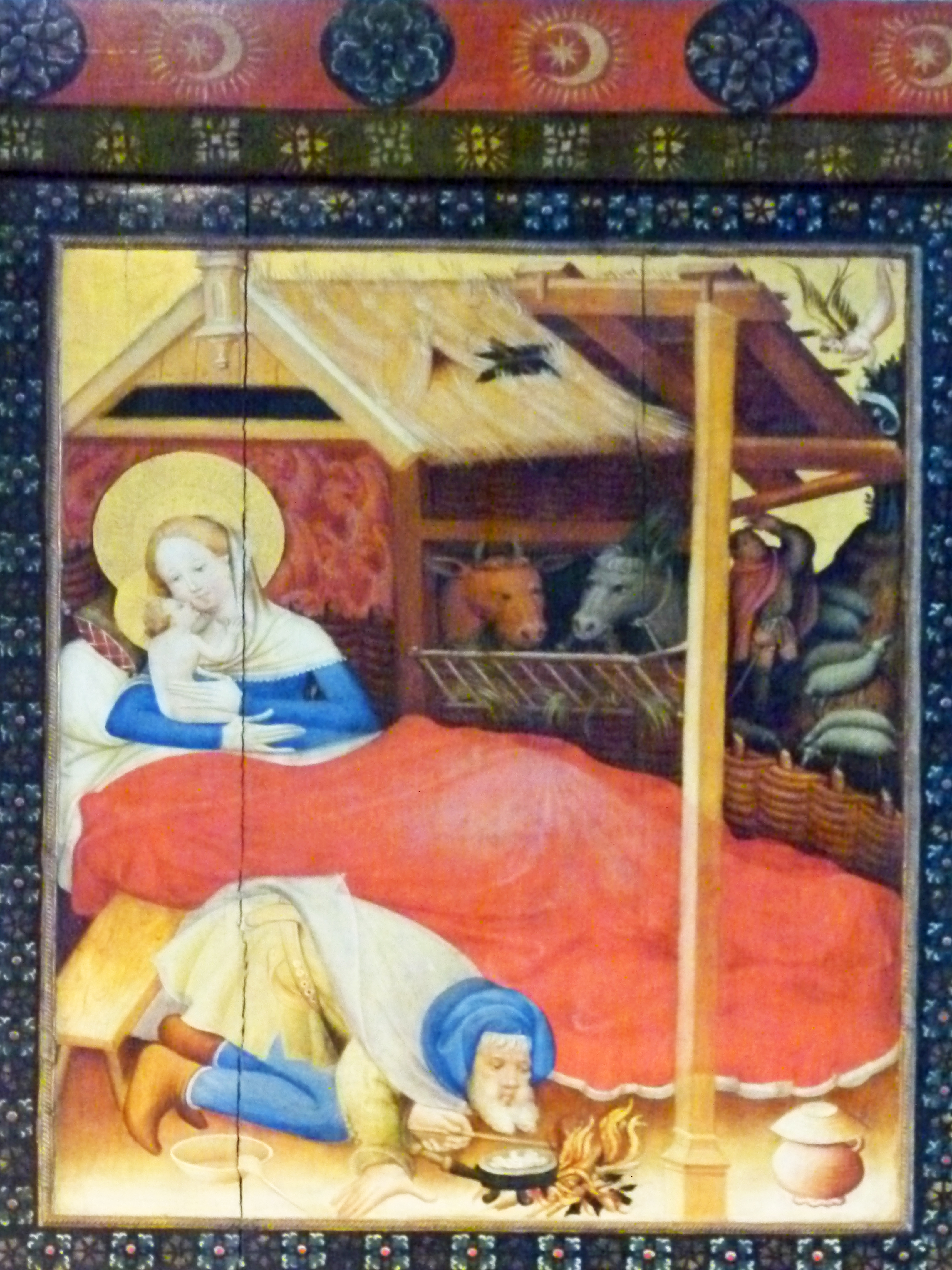 Birth of Christ, panel from the Wildunger Altarpiece of Konrad von Soest